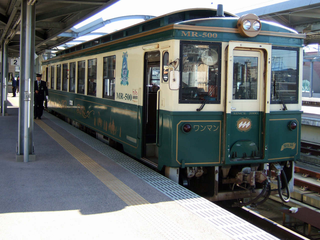 松浦鉄道MR-500形「レトロン号」（佐世保駅にて）Matsuura Railway MR-500 "retron" ,at Sasebo Station